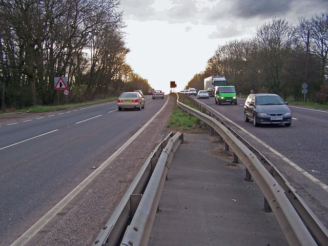 A249 Detling HillThe busy A249 drops dramatically down the scarp slope of the north Downs at this point. This is looking west with Maidstone ahead and Sittingbourne behind. Traffic coming up the hill is often slowed to a crawl by heavy vehicles, while traffic going down may have to queue to the roundabout junction with the M20 about a mile further on.